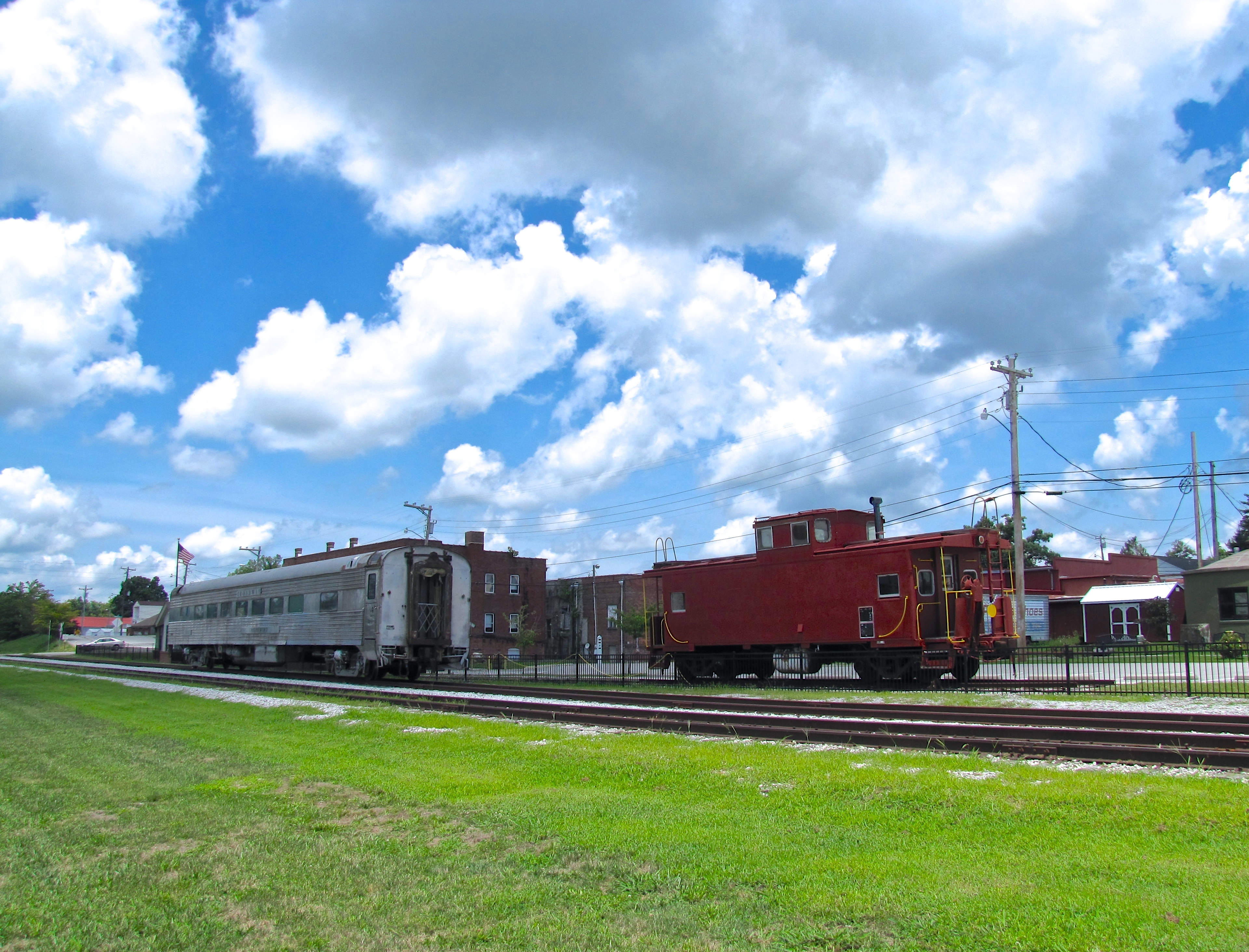 Caboose and passenger car at the Monterey Depot in Monterey, Tennessee, United States.